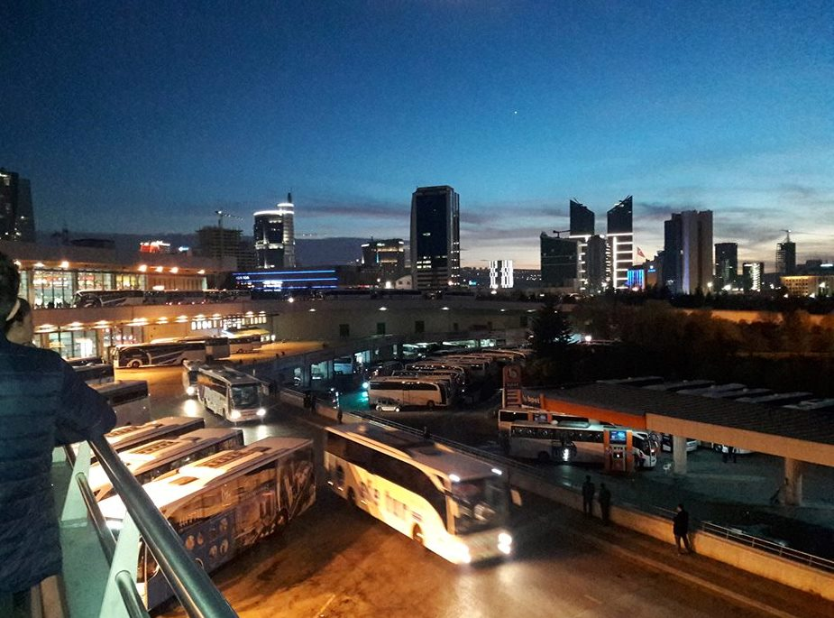 Ankara intercity bus terminal